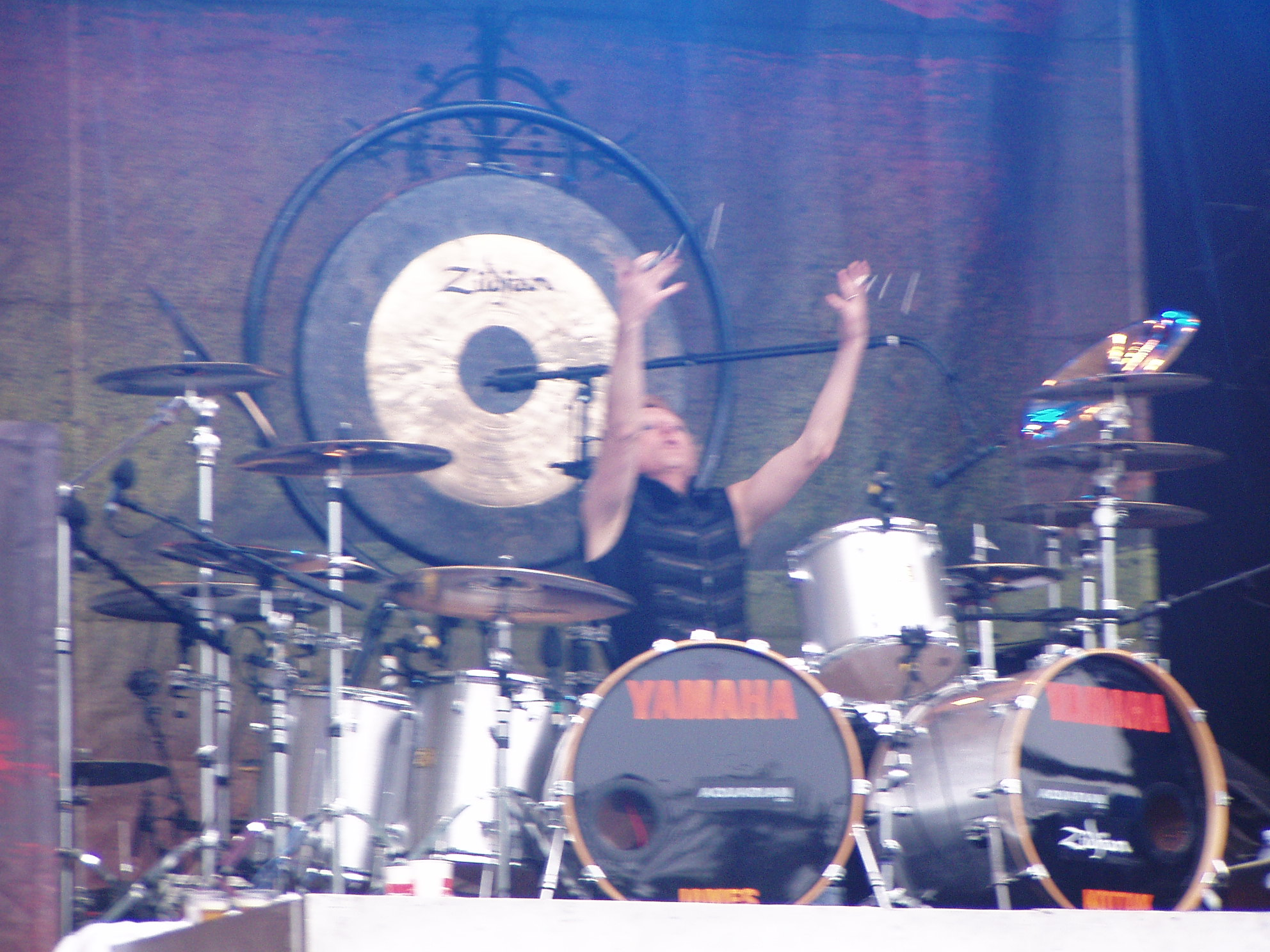 Gli Scorpions al gods of metal 2007